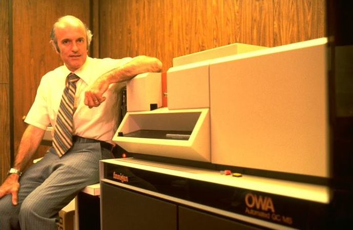 Photograph of Robert E. Finnigan, founder and head of Finnigan Instruments Corporation, shown with a Finnigan Model 1020 GCMS/Data System, also known by environmental users as the Organics in Water Analyzer (OWA).